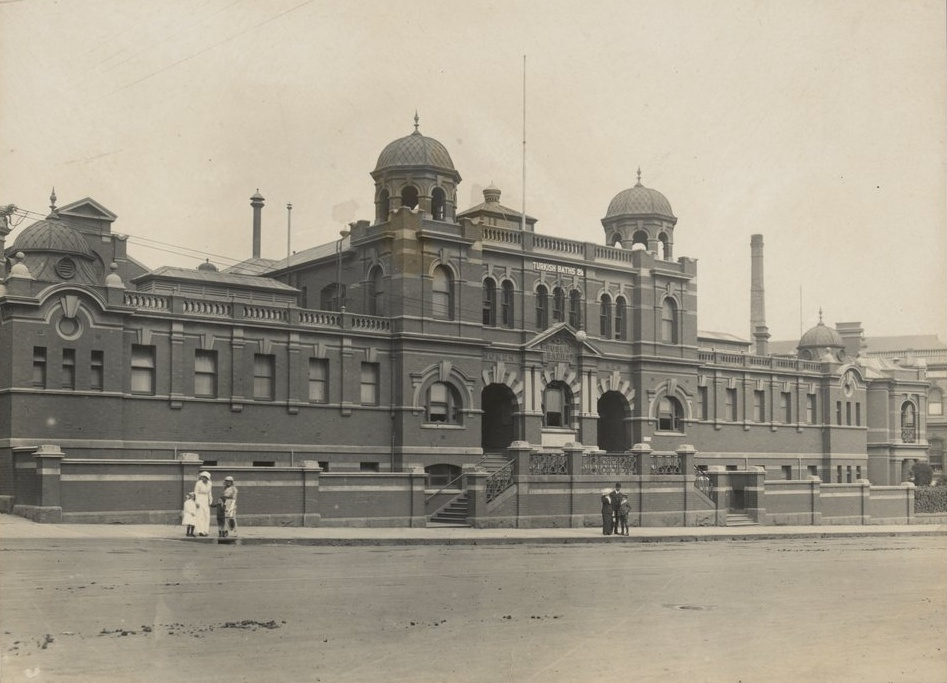 Melbourne City Baths — circa 1914.